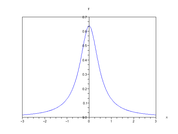 Lorentzian function (x0 = 0, Γ = 1)